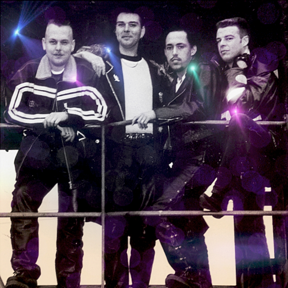 Photo taken during the summer of 1997 in Hoboken, Antwerp. This photo is part of a serie which were to be used for promotional purposes for Gravity Noir. They were never used officialy. The name of the photographer who took this photo was Erik Glibert (Born in Wilrijk, 6 september 1954 and died during a traffic accident in Antwerp on november 26th of 1997), he was a good friend of Patrick Knight.